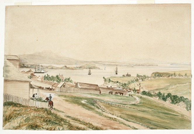 Outhwaite, Isa, 1842-1925 :[Parnell, looking towards North Head and Rangitoto] Isa del. Jan 22nd 1867, after a sketch by J Sewell Esqr, M T 1864